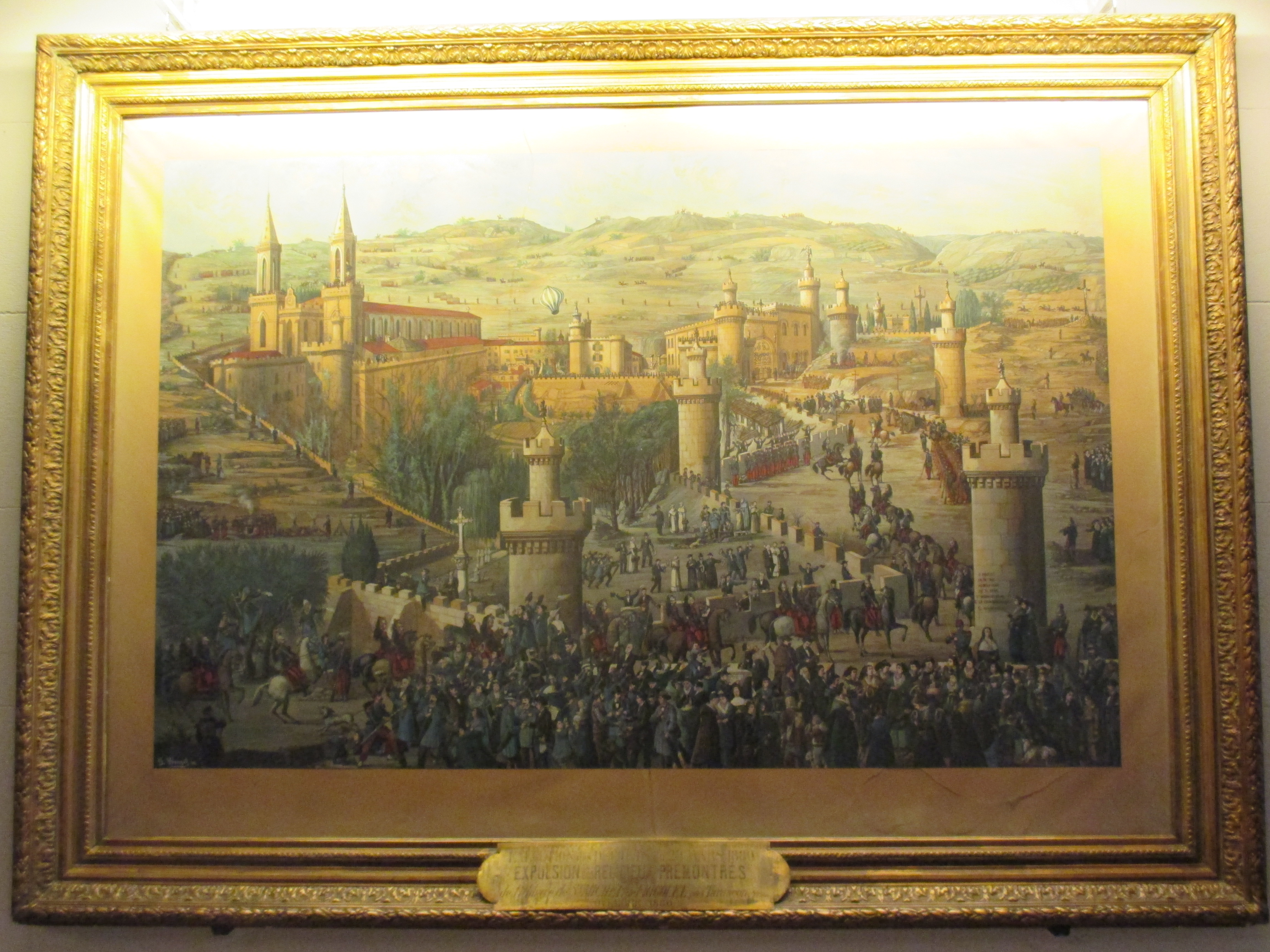 Abbaye Saint-Michel-de-Frigolet